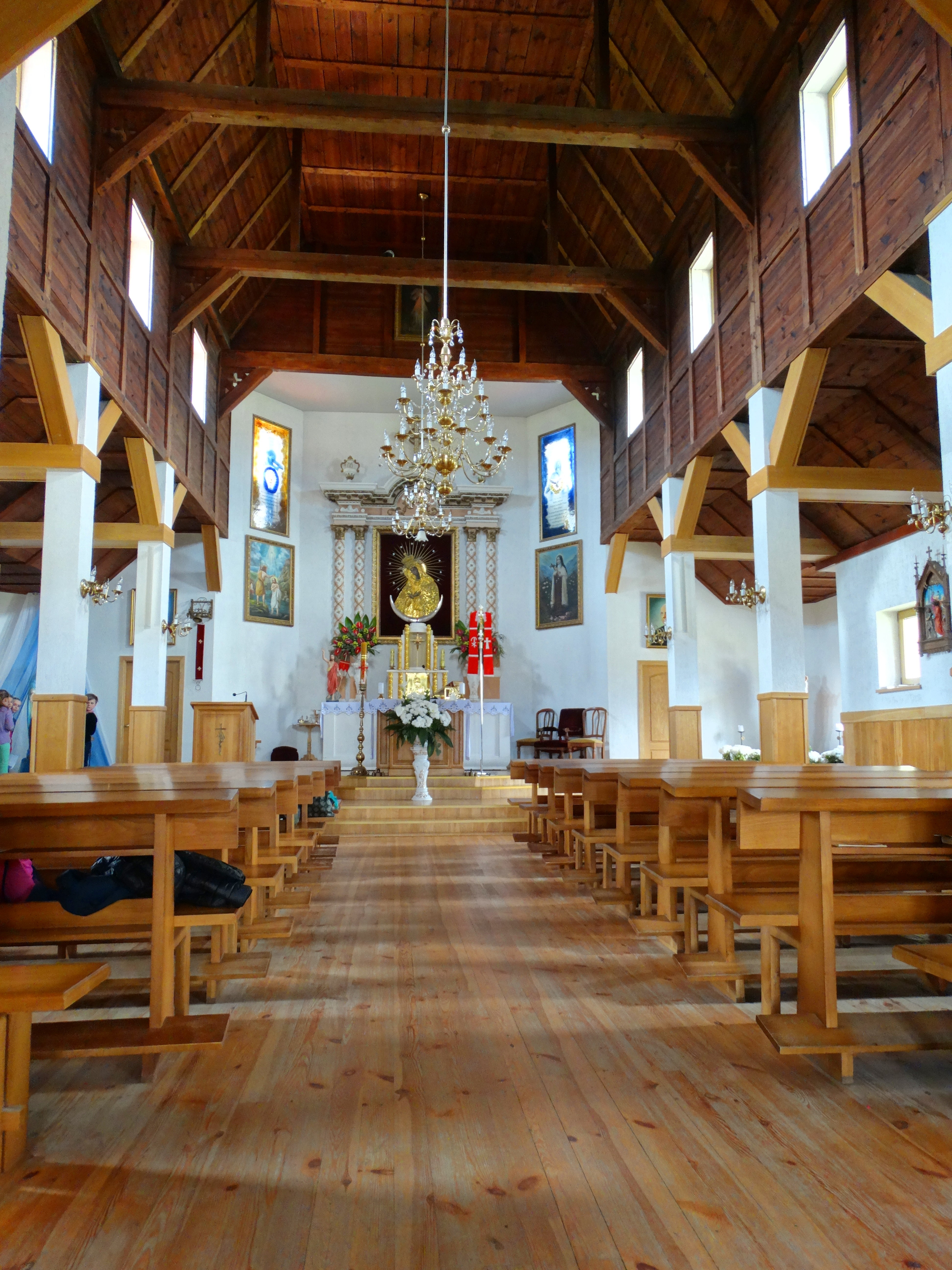 St. Anne's Catholic Church, Jašiūnai, Šalčininkai District, Lithuania